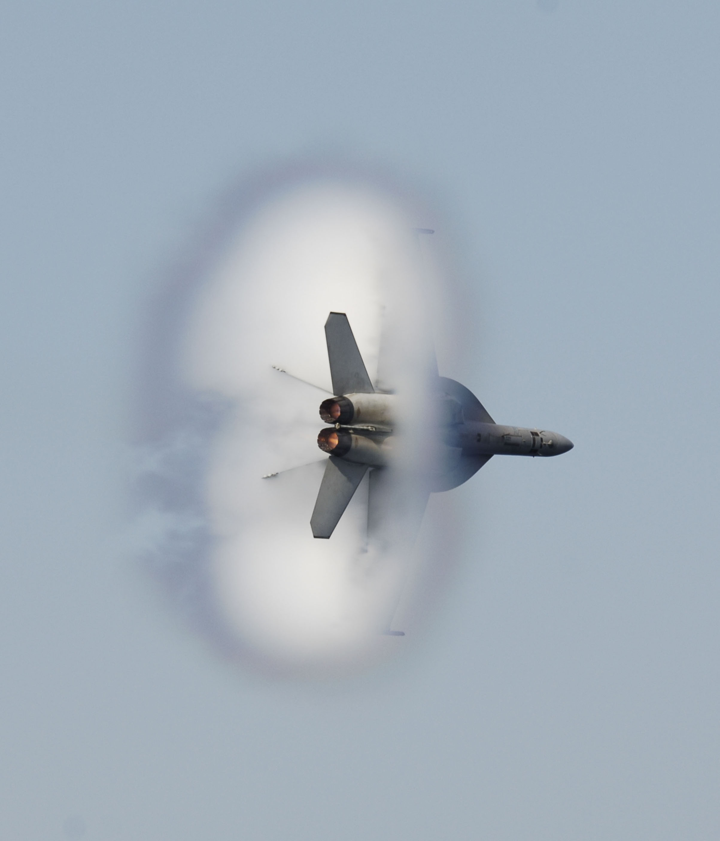 Pacific Ocean (Nov. 5, 2006) - An F/A-18F Super Hornet assigned to the "Diamondbacks" of Strike Fighter Squadron One Zero Two (VFA-102) completes a super-sonic flyby as part of an air power demonstration for visitors aboard USS Kitty Hawk (CV 63). VFA-102 is one of the nine squadrons and detachments assigned to Carrier Air Wing Five (CVW-5) and embarked aboard Kitty Hawk. Kitty Hawk and CVW-5 is currently deployed off the coast of southern Japan on a scheduled deployment. U.S. Navy photo by Mass Communication Specialist 3rd Class Jarod Hodge (RELEASED)